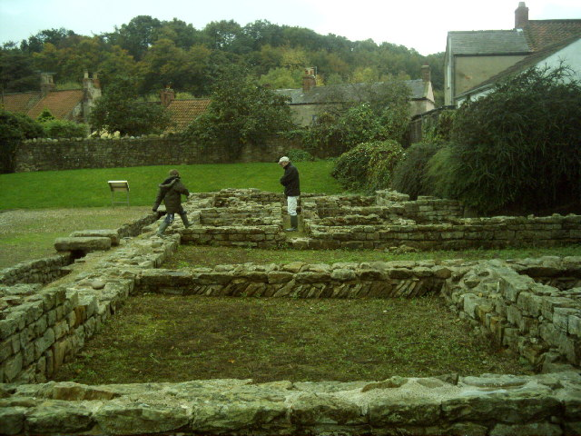 Piercebridge Roman Fort